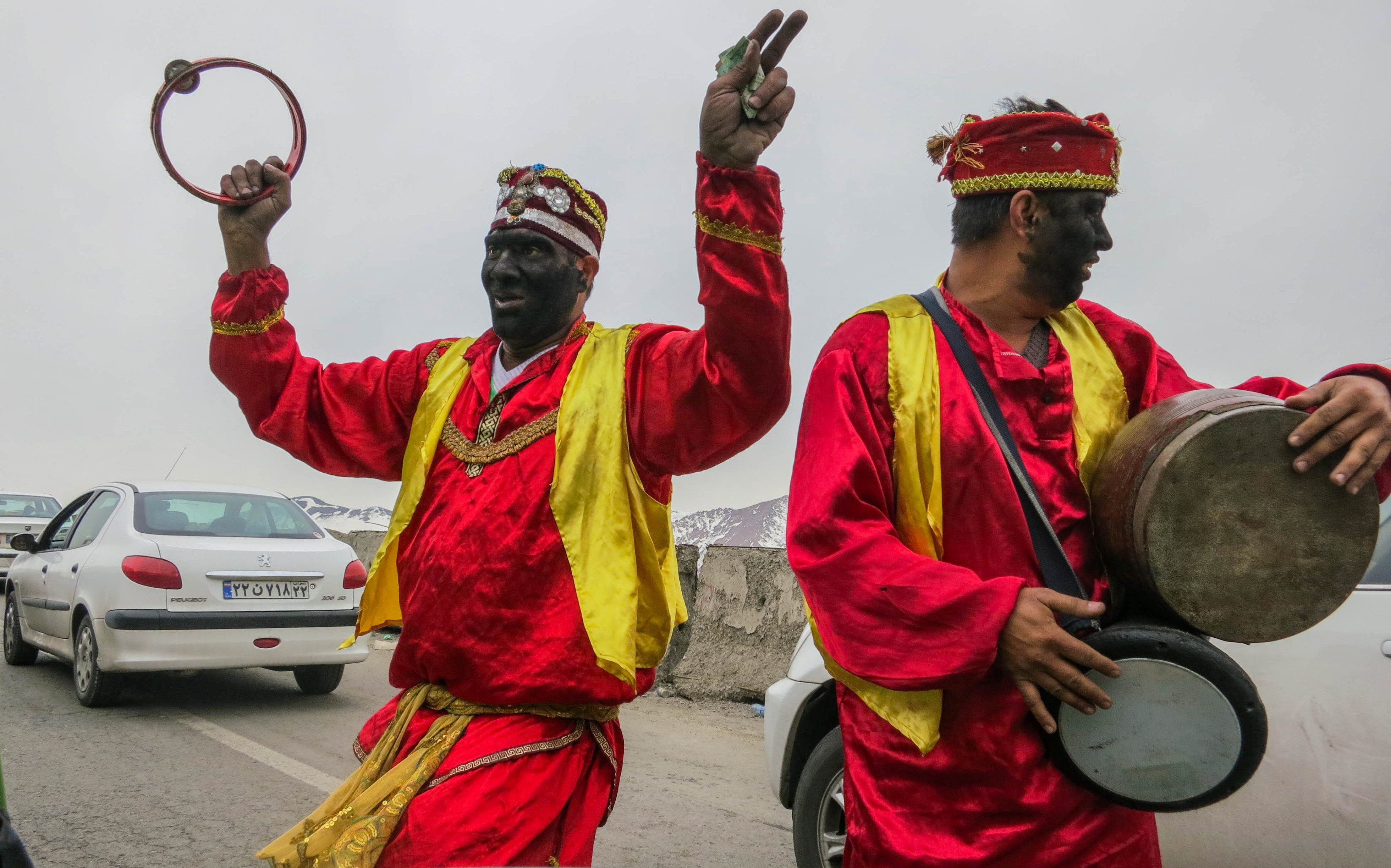 Nowruz in Tehran, Haji Firuz, celebrating the Iranian New Year on the road in Tehran Province, March 2013. The Iranian New Year (Nowruz) is always in March. It is a big celebration with many kind of events. Haji Firuz is one of them. Nowruz corresponds to our Christmas. مازِرونی: حاجی فیروز عکس